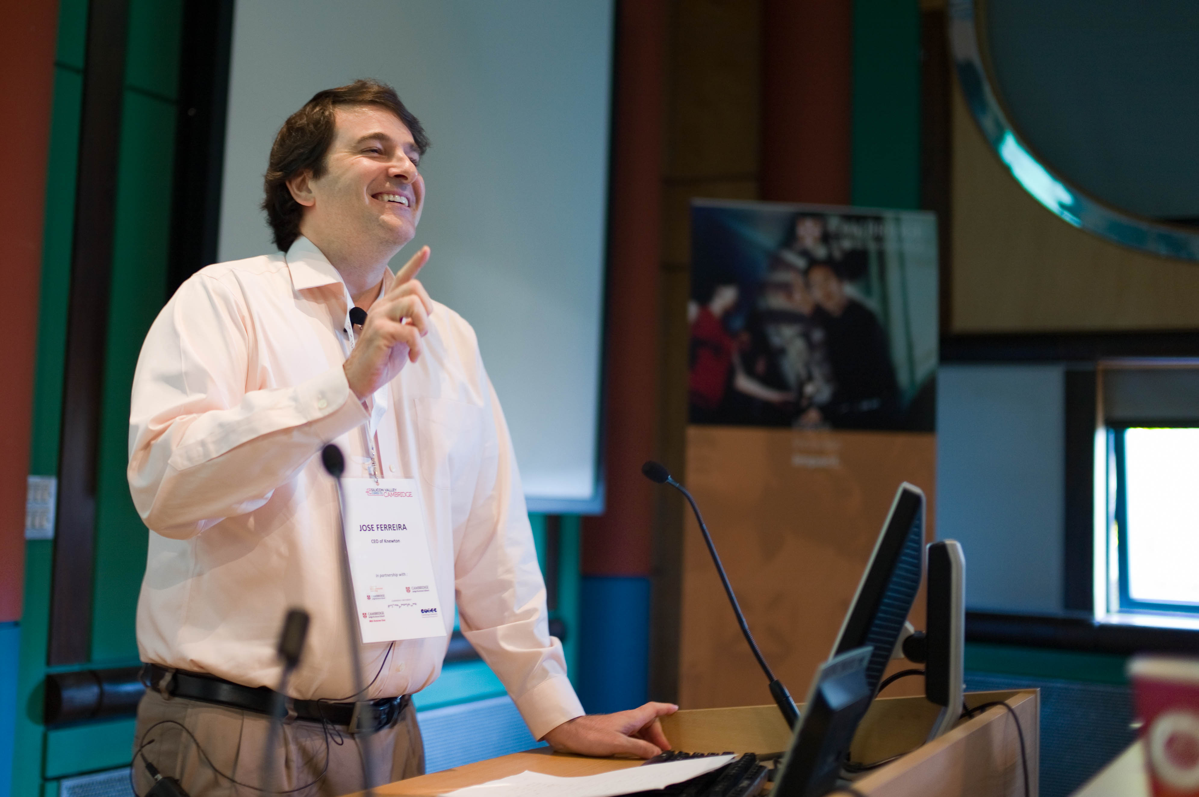 Jose Ferreira